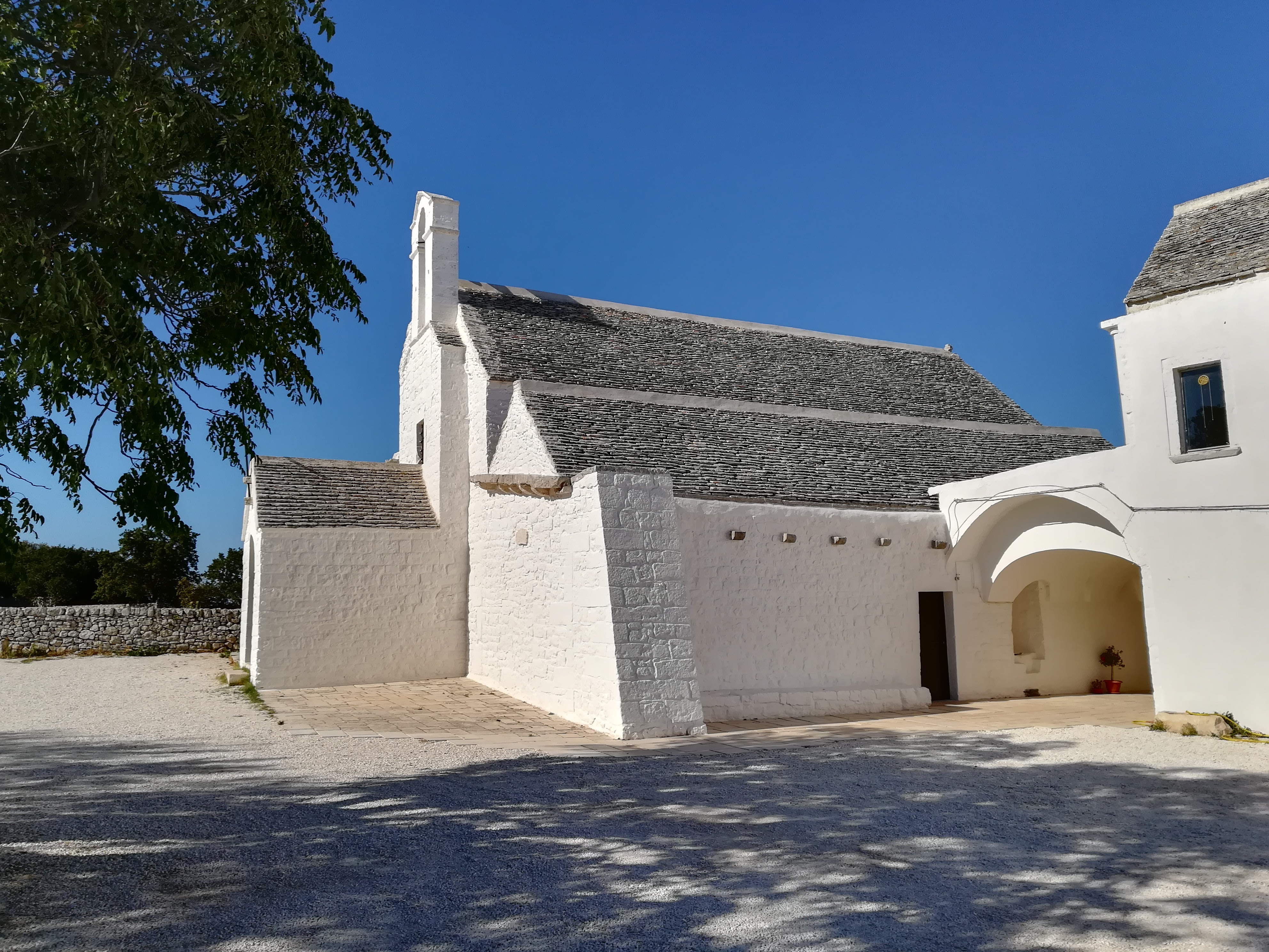 Noci, Italy. Church of 'Santa Maria di Barsento'